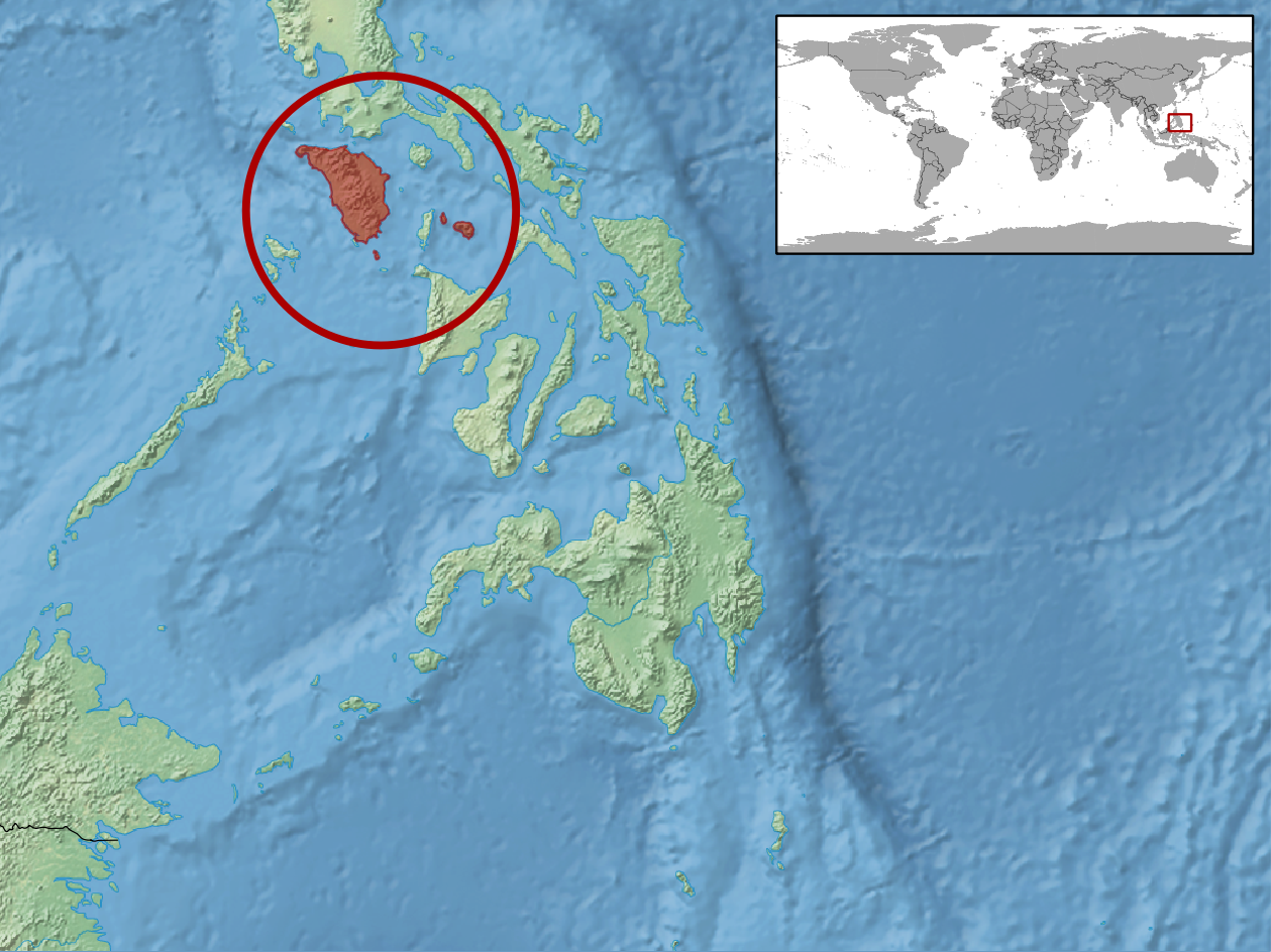 geographic distribution of Draco quadrasi